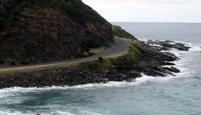 London arch